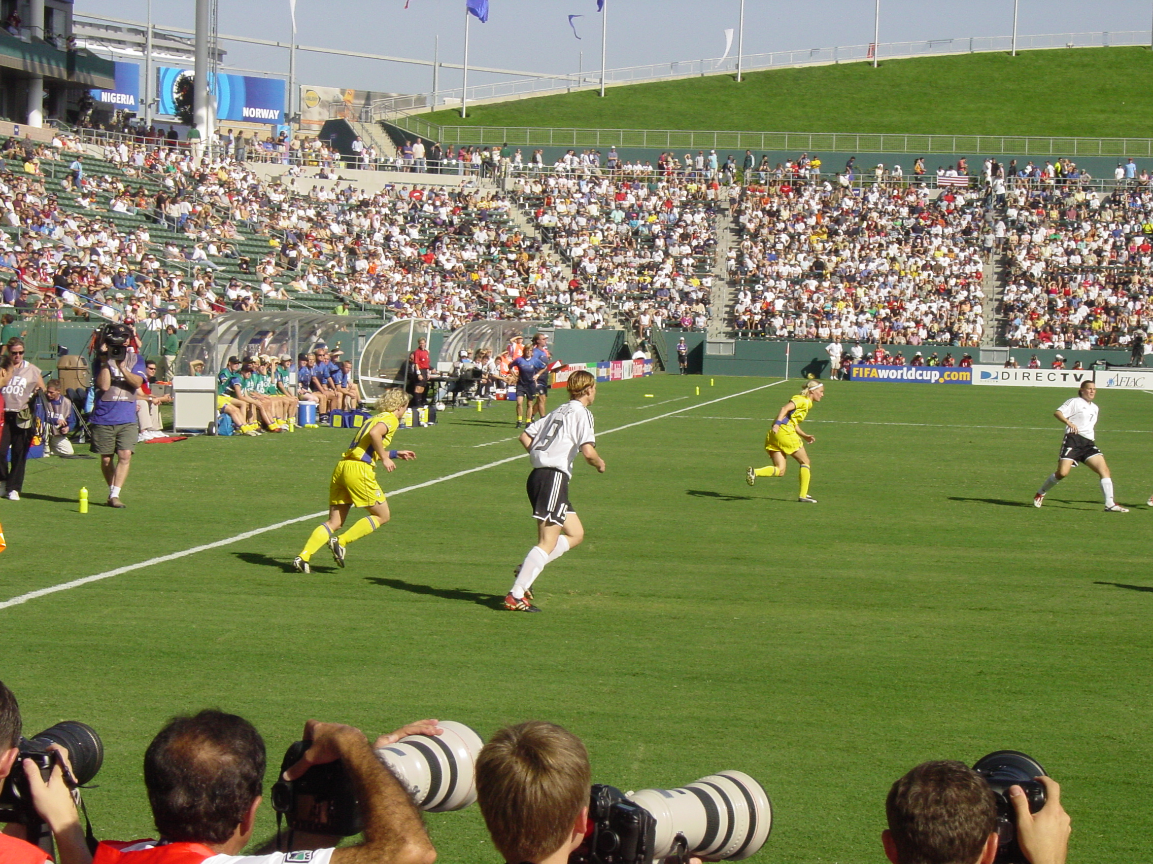 Match between Germany and Sweden in the FIFA Women's World Cup 2003 (final)